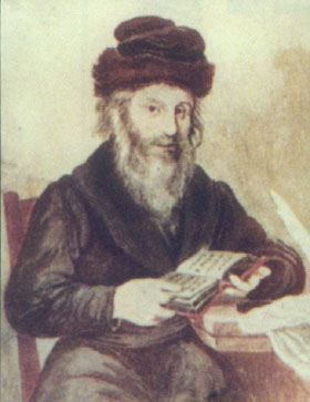 Moses Sofer